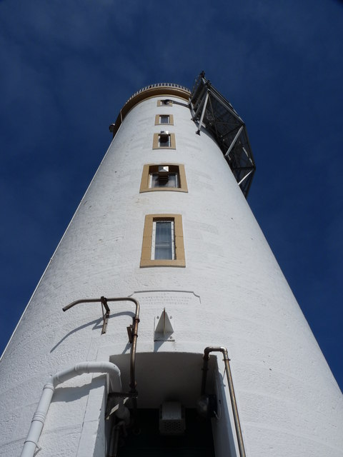 Bound Skerry Lighthouse The characteristic Out Skerries lighthouse can be seen from almost anywhere on the islands. It is located on a small rocky island named Bound Skerry, the most easterly island of the Skerries.